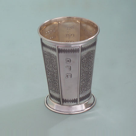 JUDAICA KIDDUSH CUP.